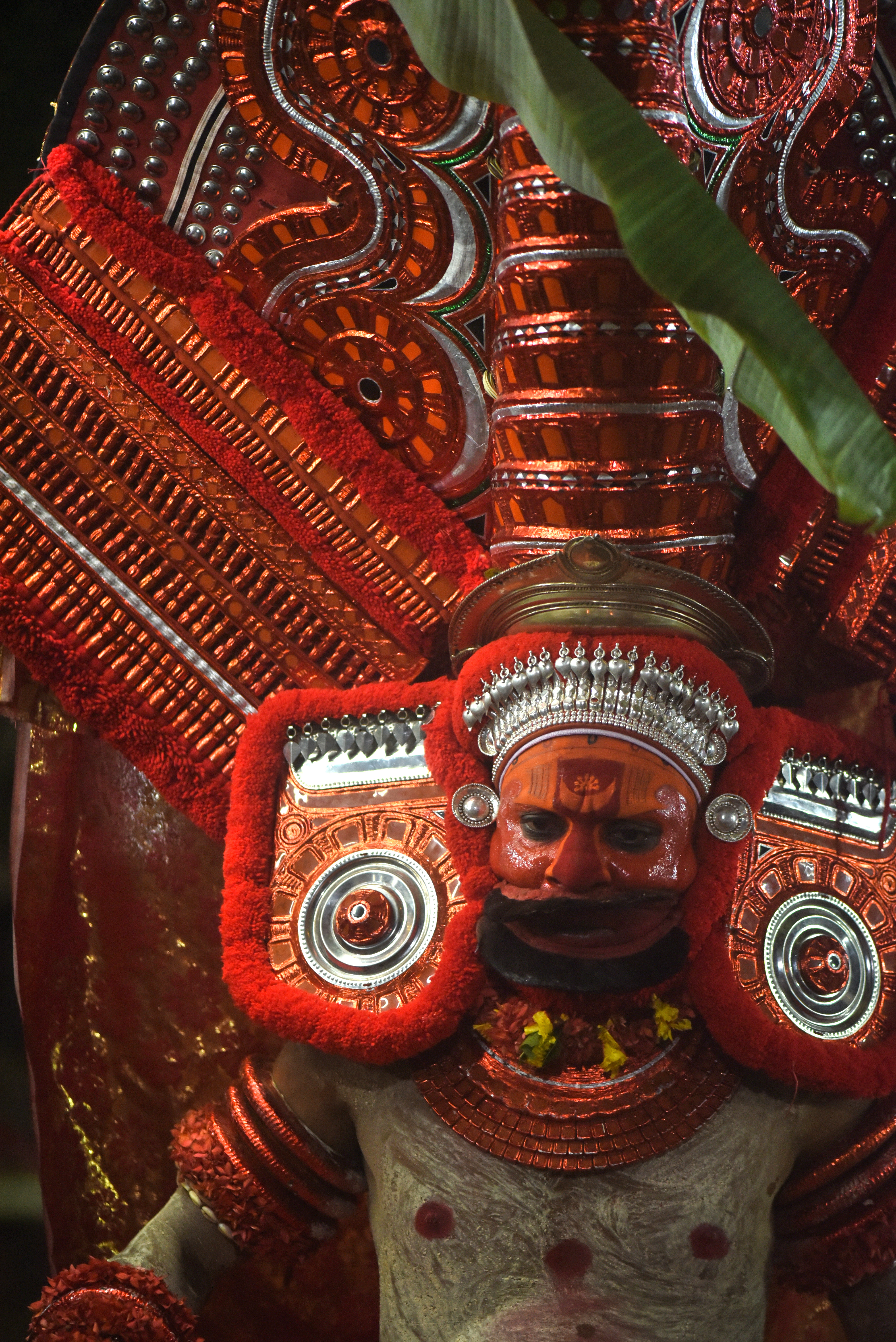 Kallidil Kannamman theyyam portrays a war hero named Kannan from Kallidil family who lost his life in war. Kannamman theyyam is performed only in Kallidil tharavadu in Kerala. This is located in Payyannur town, in Kannur district.